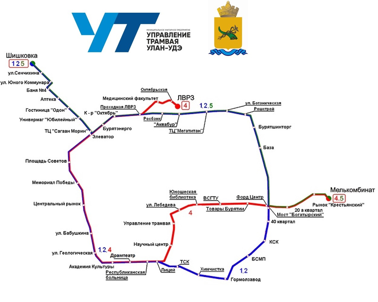 Map of Ulan Ude tram lines with corporate logo and city’s coat of arms.